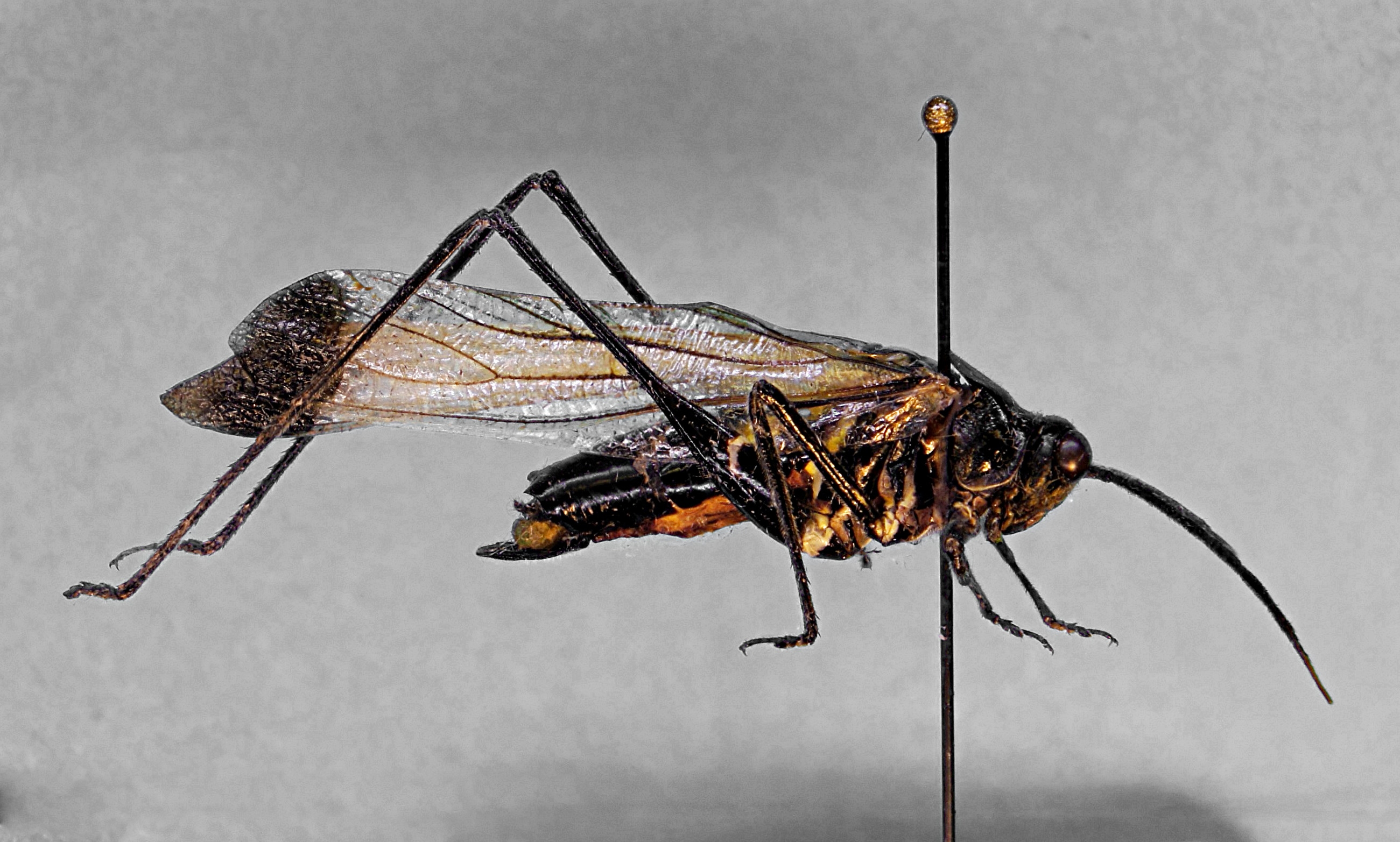 Aganacris nitida (Perty, 1832), leg. 2014 in Panguana, Peru; collected over night in a chlorophorm trap, about 20 m altitude. Specimen deposited in Zoologische Staatssammlung München, Germany.